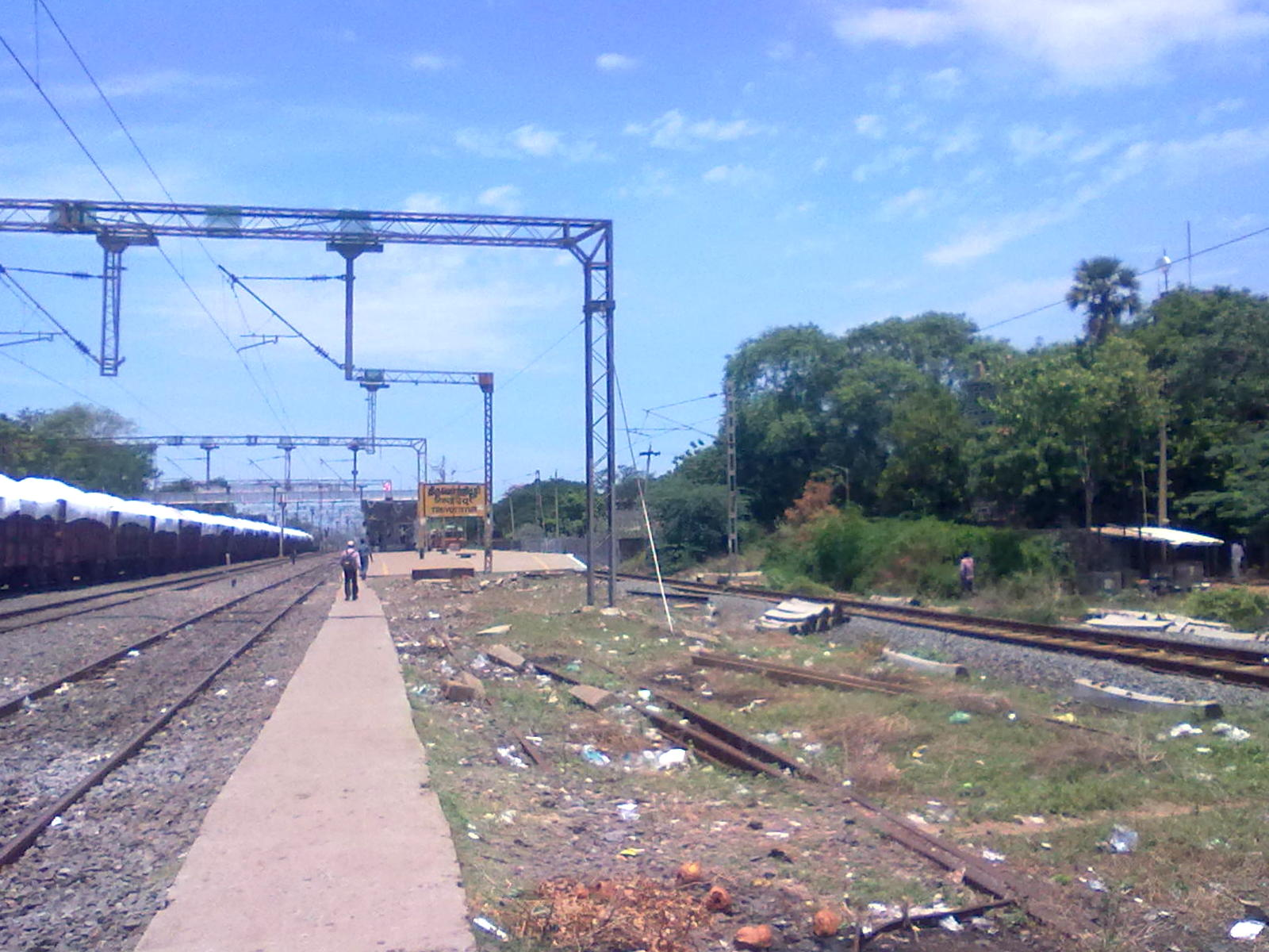 It is the pathway for west side connectivity from station with board of station name